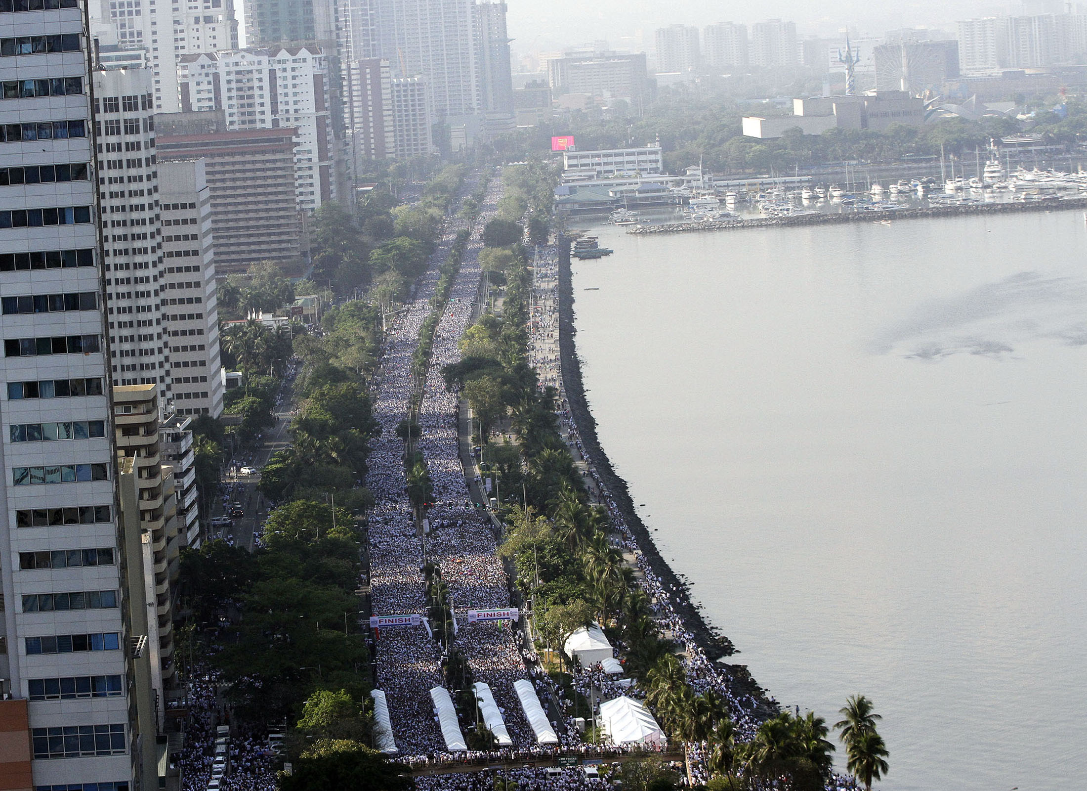 INC Worldwide Walk for Poverty -A millions members of Iglesia ni Cristo join the INC Worldwide Walk for Poverty from Buendia up to the Baywalk in Roxas Boulevard in Manila on Sunday dawn (May 6, 2018) (PNA photo by Avito C. Dalan)